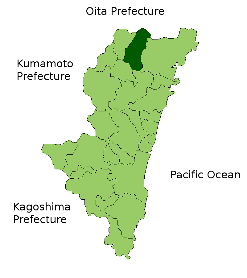 Location Map of Hinokage in Miyazaki Prefecture, Japan